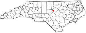 Category:North Carolina Dot Maps